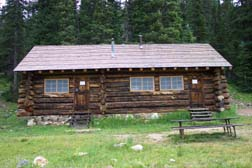 Front of the Willow Park Patrol Cabin, located on Fall River Road west of Estes Park in the Larimer County portion of Rocky Mountain National Park in the U.S. state of Colorado. Built in 1923, it is listed on the National Register of Historic Places.